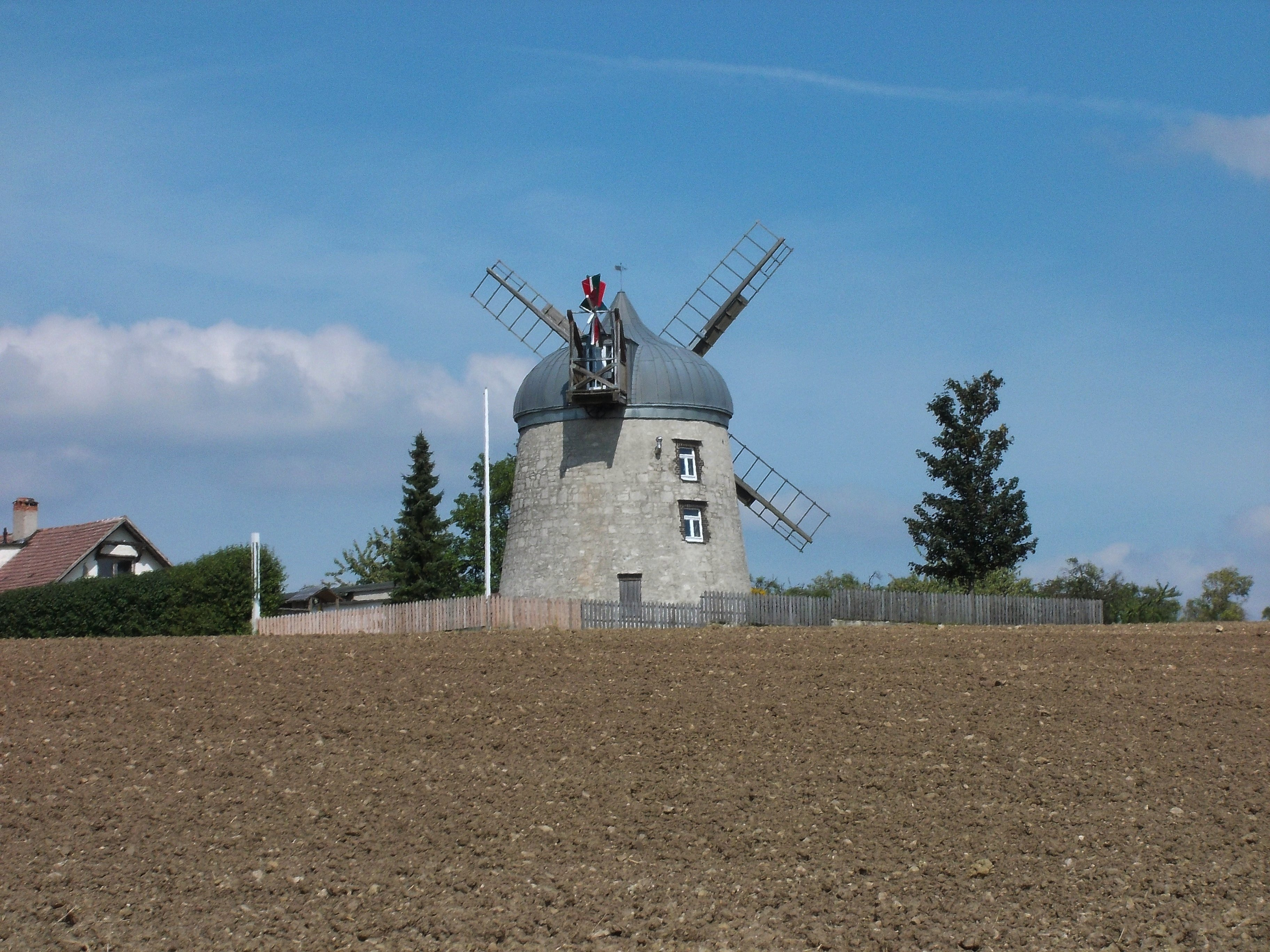 Tower mill between Schieben and Tultewitz (Naumburg, district of Burgenlandkreis, Saxony-Anhalt)